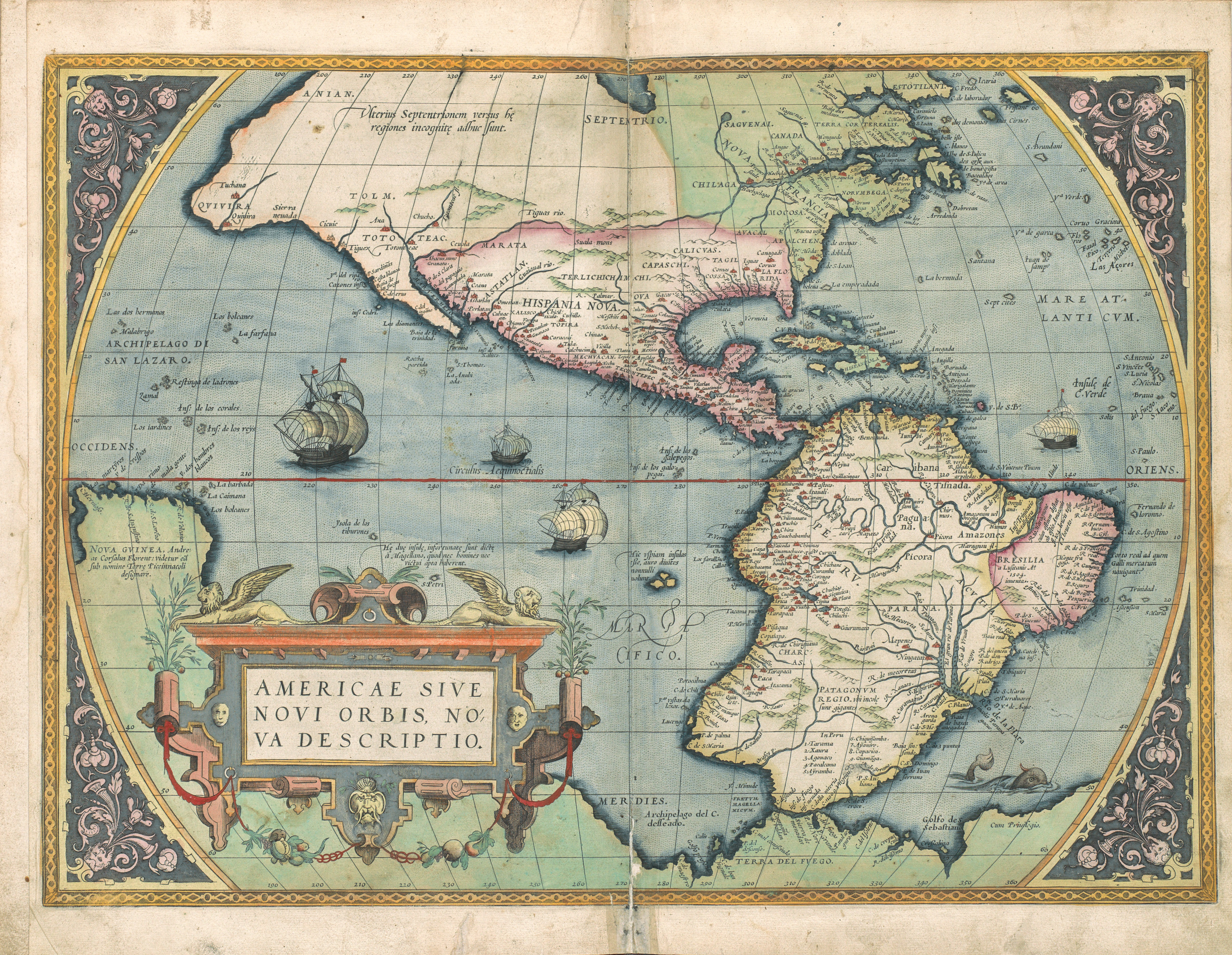 Plate '002av-002br' from the Atlas Ortelius by Abraham Ortelius. Original edition from 1571 with additions from 1573, 1579 and 1584. Complete description of this work (in Dutch) is available here. On this map the world is shown.